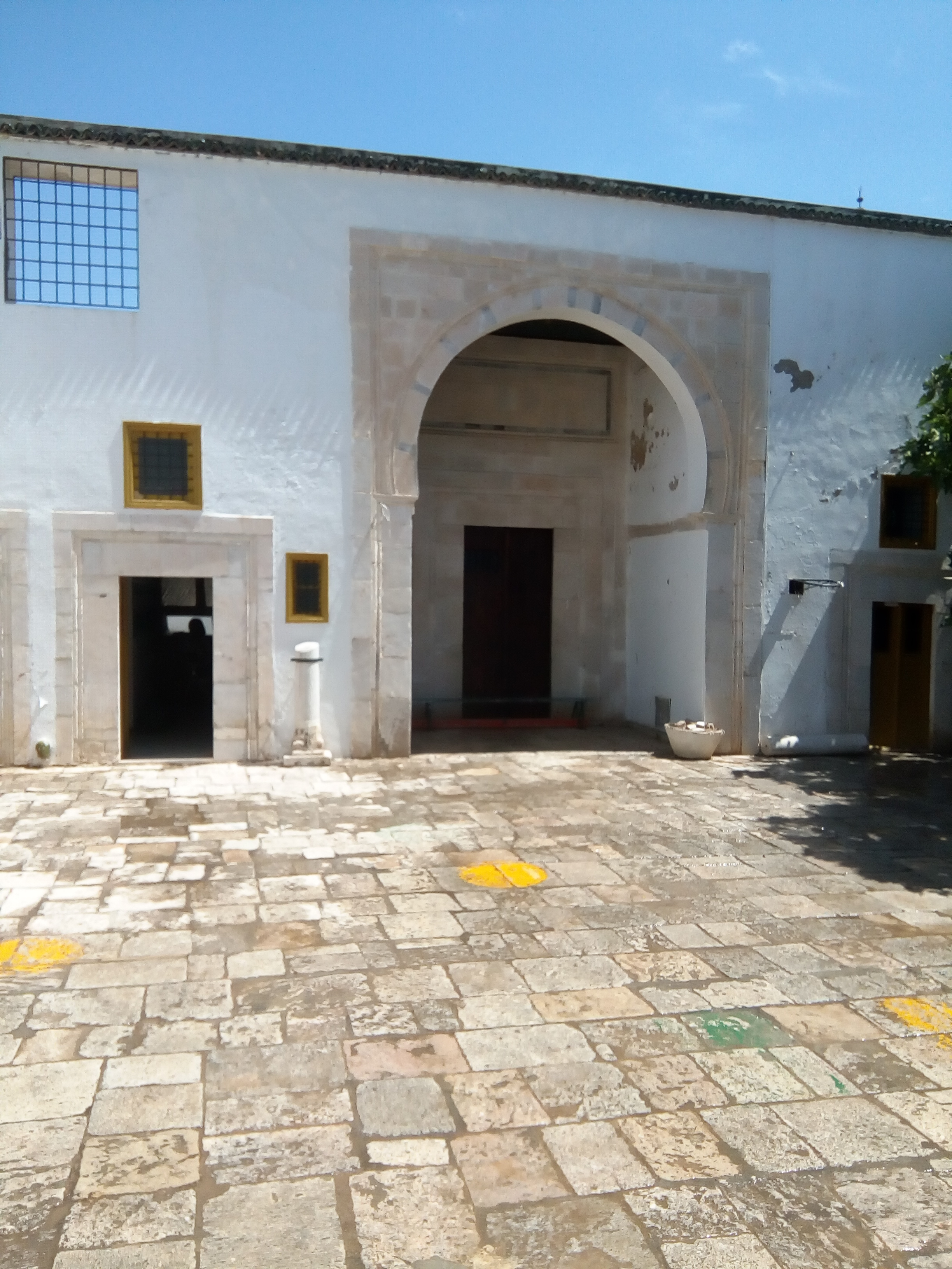 Medersa El Mountaciriya in Tunis, Tunisia